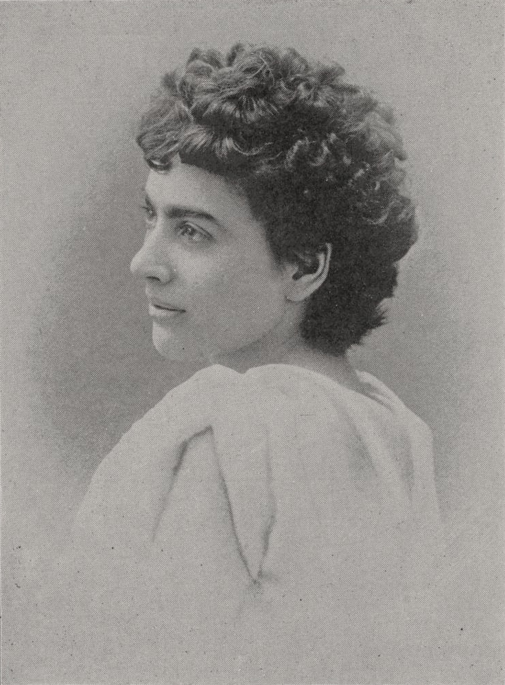 Author Lizzie Magie